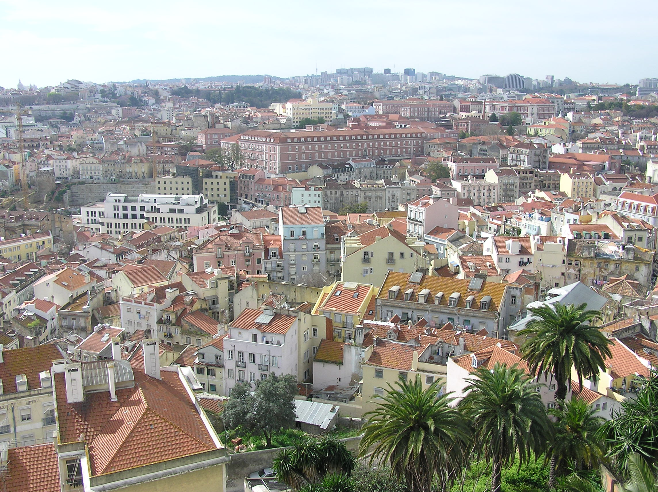 Author: Pictures of Lisbon